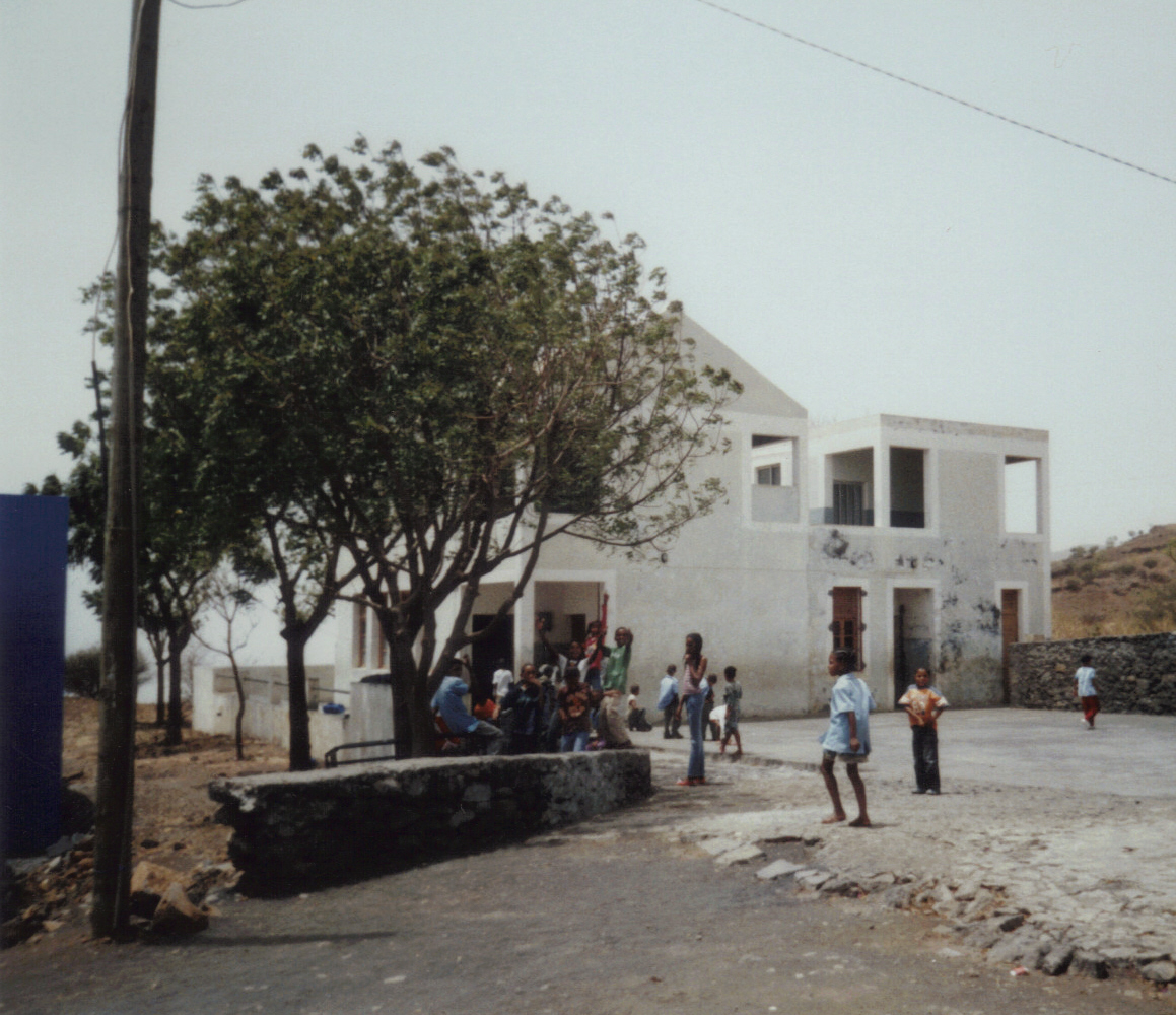 Village School, Monte Largo, Cape Verde.